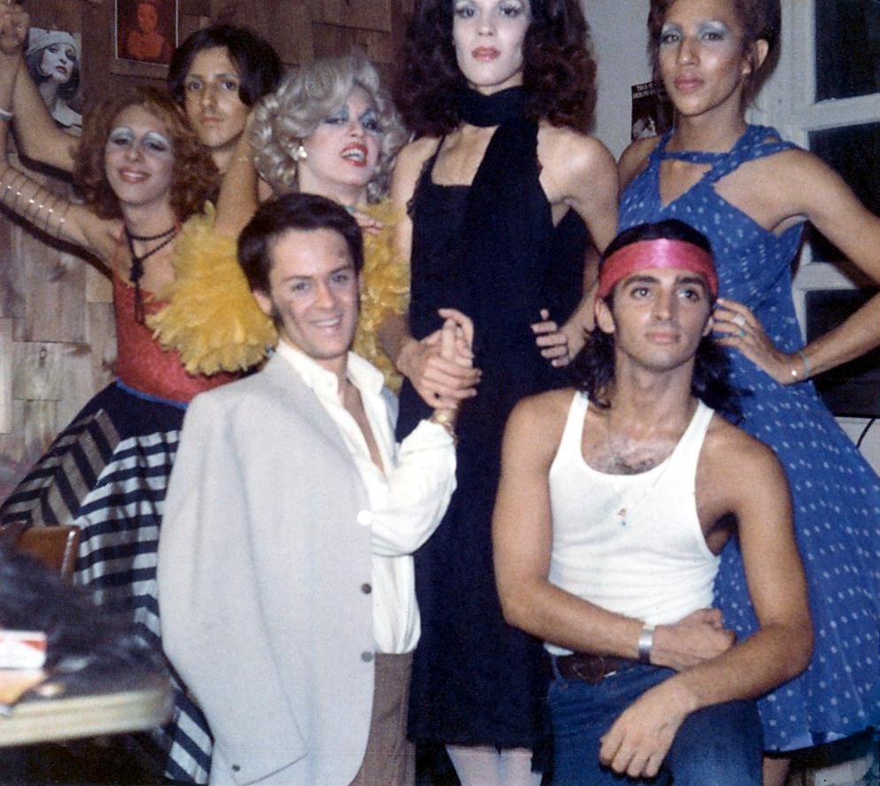 Cast of West Side Tuna (pre-Wild Side Story), l-r: Jessica Kilo (Ramon Lemus), Tony Del Valle, Lars Jacob, Roxanne Russell (Logan Carter), Rena Del Rio (Rene Zequeira), Jimmy, Chiena Chinette (Oscar Perez Echarte), as released by image creator Lars Jacob ProdPlace: Ambassadors III, 401 22nd Street, Miami Beach, Florida